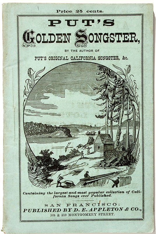 cover of Put's Golden Songster, songbook published ca 1858, san francisco, written and compiled by John A. Stone